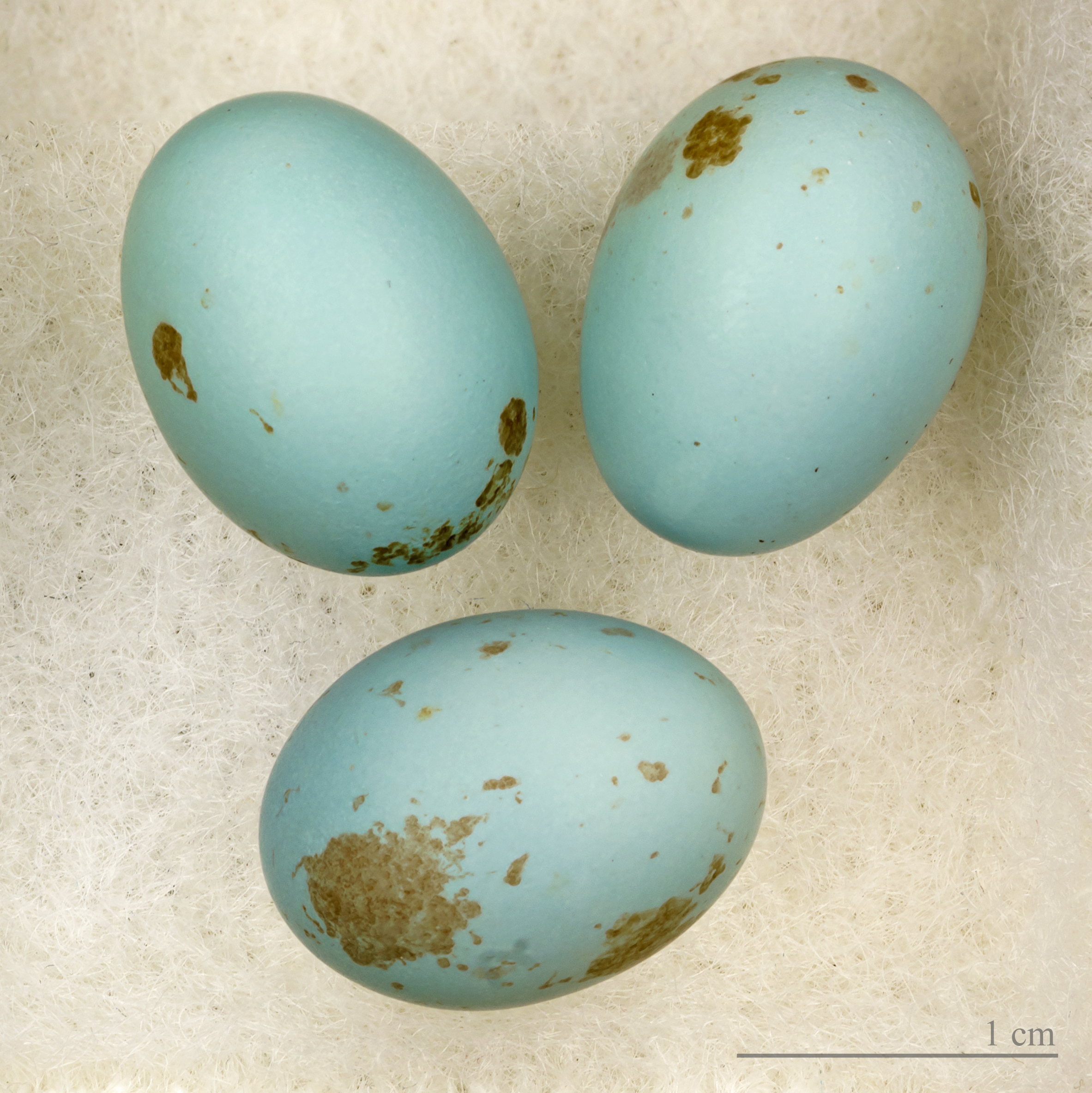 Egg of Chattering Cisticola. Collection of René de Naurois / Jacques Perrin de Brichambaut.